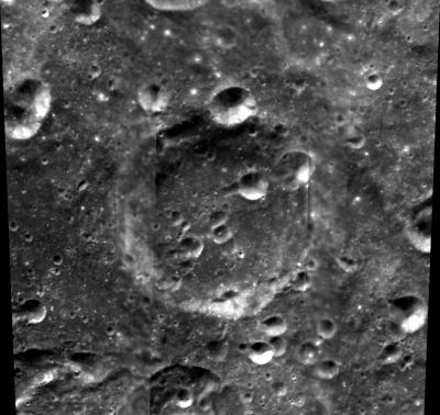 Clementine image of Grissom crater on the Moon